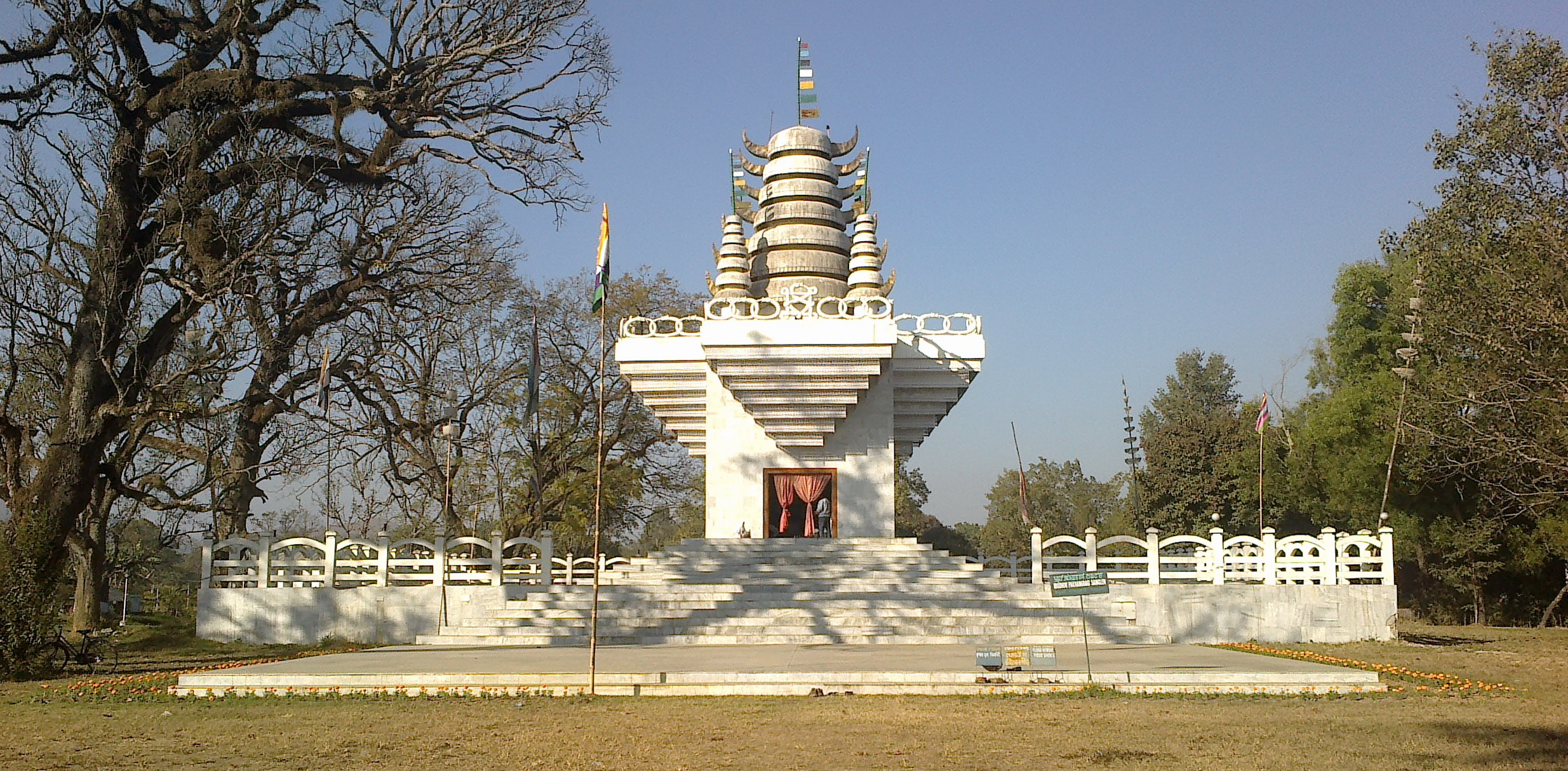 It is situated at proper Imphal into the Kangla heritage site.